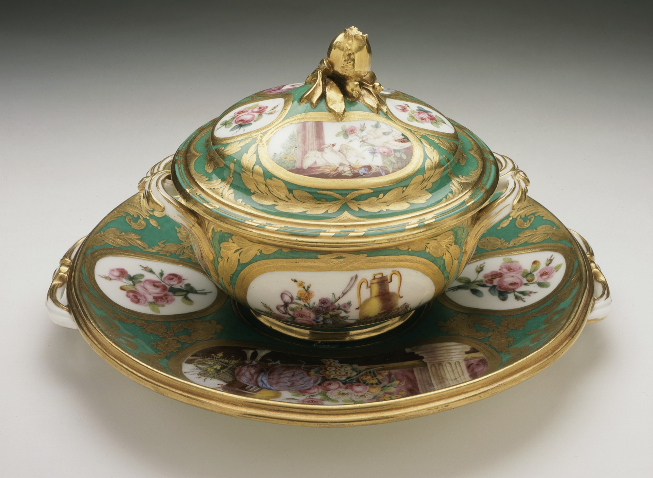 France, Sèvres, 1776 Alternate Title: Écuelle Furnishings; Serviceware Porcelain with enamel, gilding, and glaze Decorative Arts Council Fund in honor of Joyce MacRae (M.2001.6a-c) Decorative Arts and Design